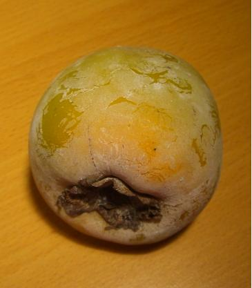 Kaki preserved five to seven days in lime, a traditionnal taiwanese way for getting rid of bitterness.